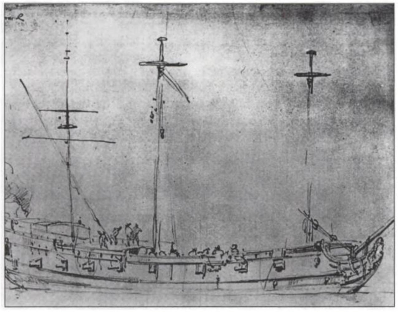 Sketch of HMS Drake by Willem van de Velde the Younger, circa sometime prior to 1707. Reproduced in "Port Royal, Jamaica" by Michael Pawson and David Buisseret (1974).